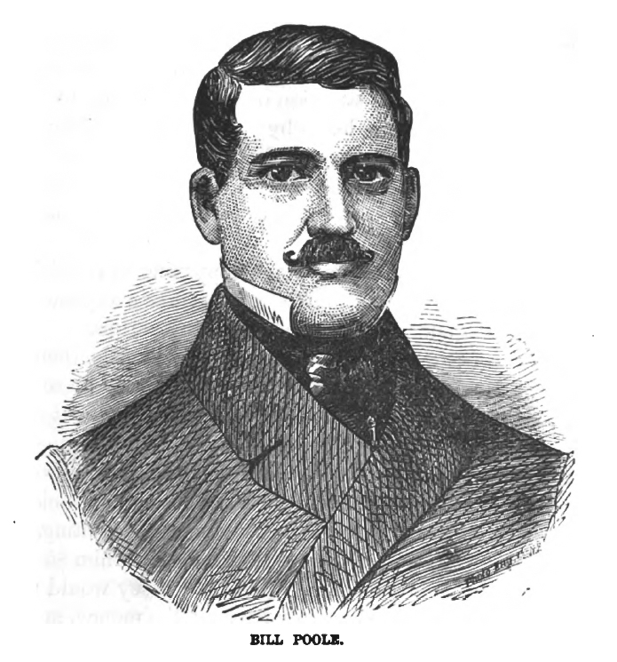 An engraving of boxer/gang leader William Pool